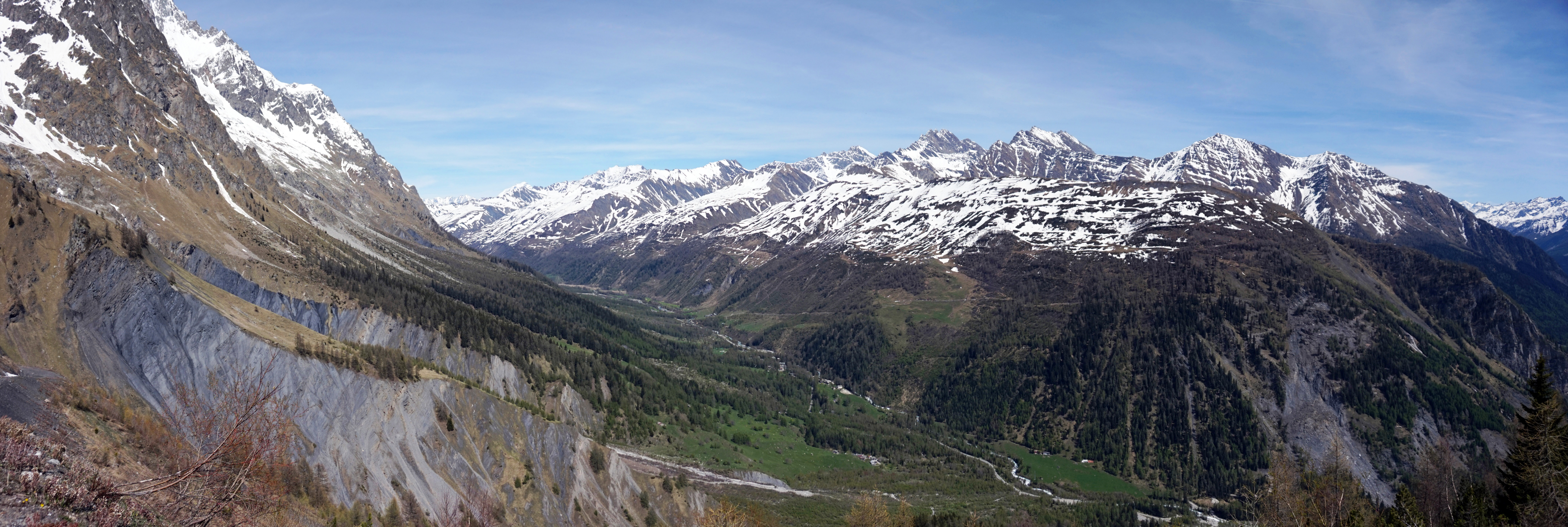 View to Val Ferret. On the left is Massif du Mont-Blanc and on the right is Pennine Alps.This photograph was taken with a Sony ILCE-5000